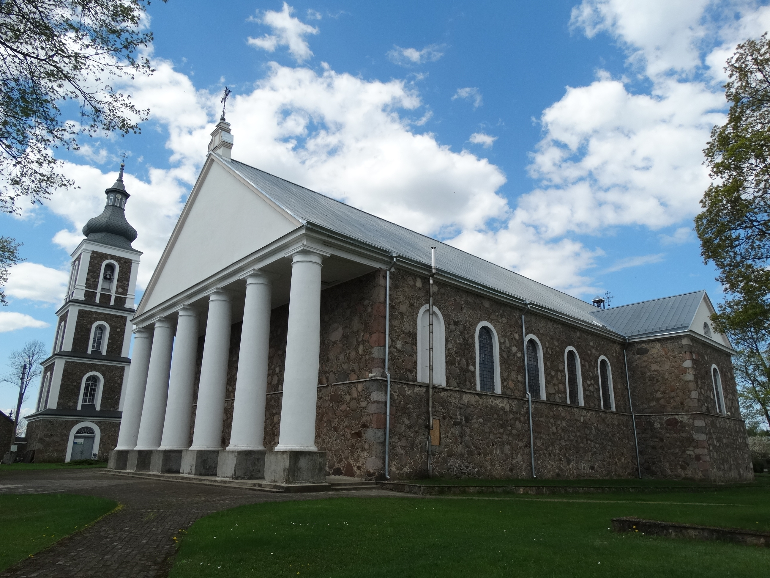 Catholic Church, Eišiškės, Šalčininkai District, Lithuania